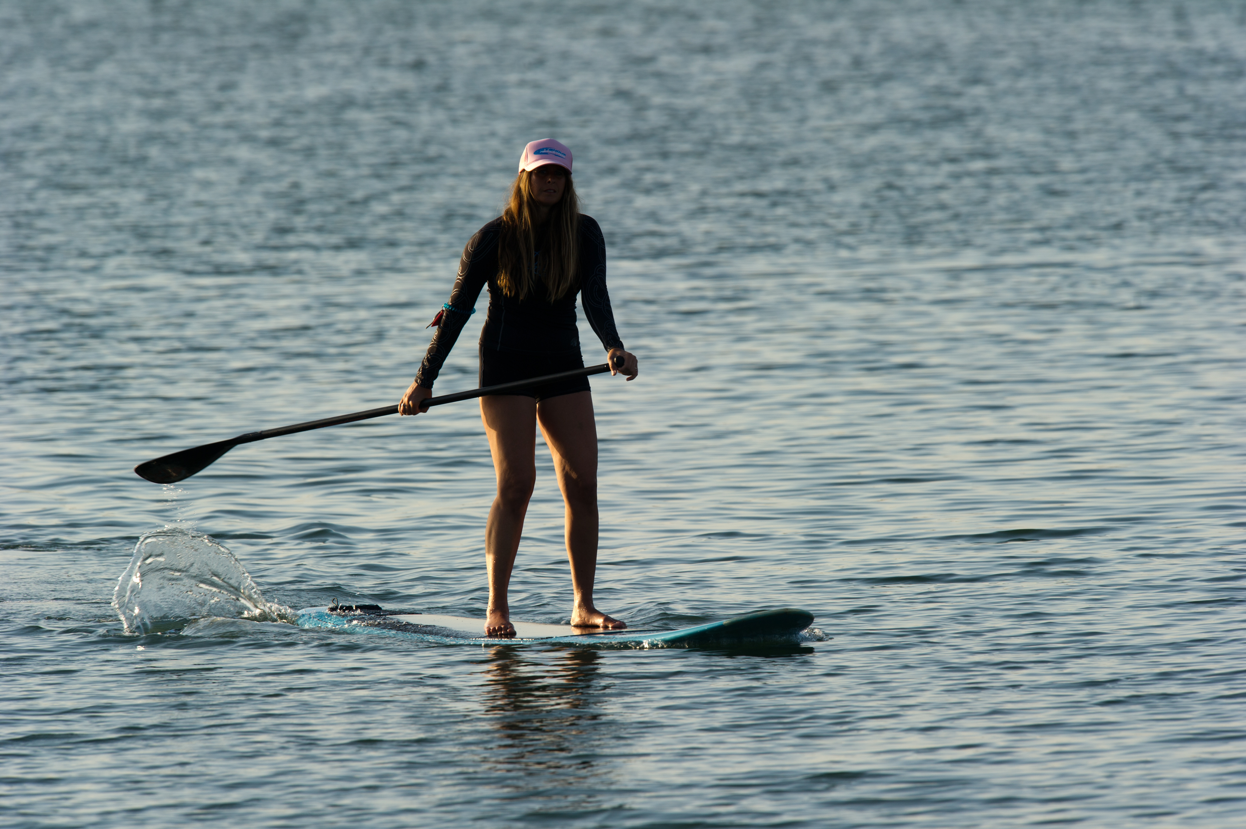 Woman stand up paddle surfing, Long beach bay side 2010.